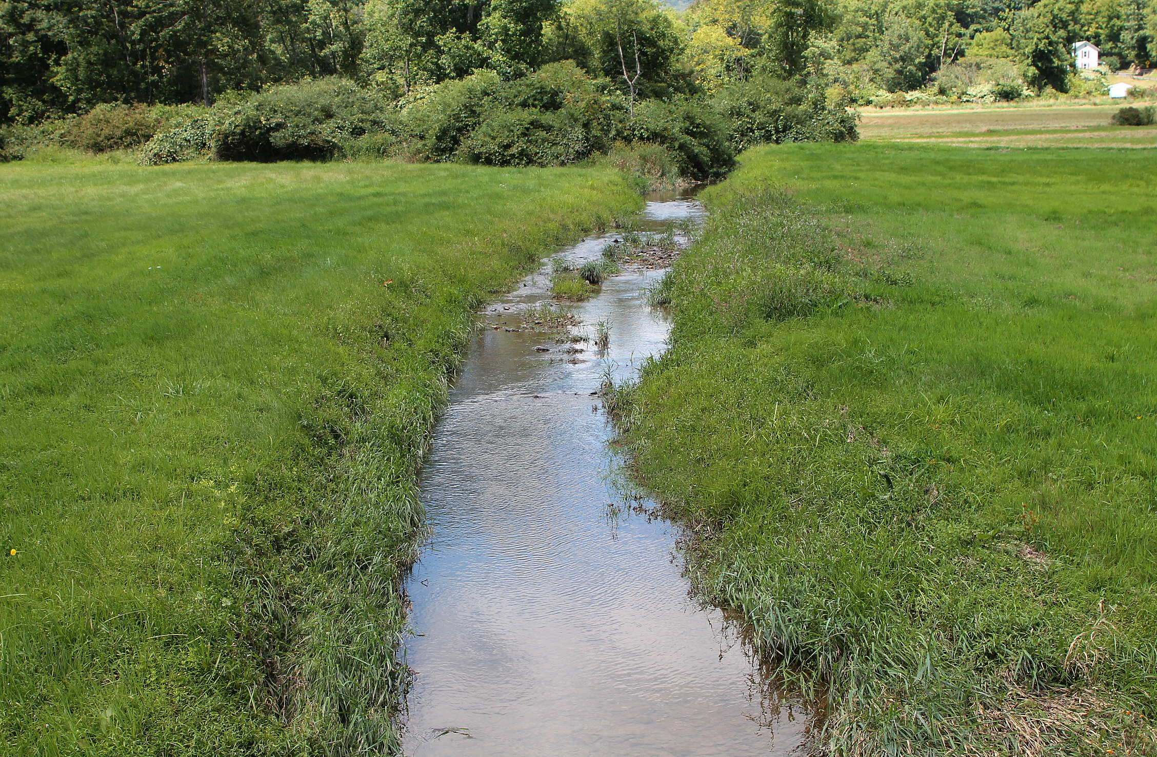 same as File:East Branch Briar Creek.JPG, but in August